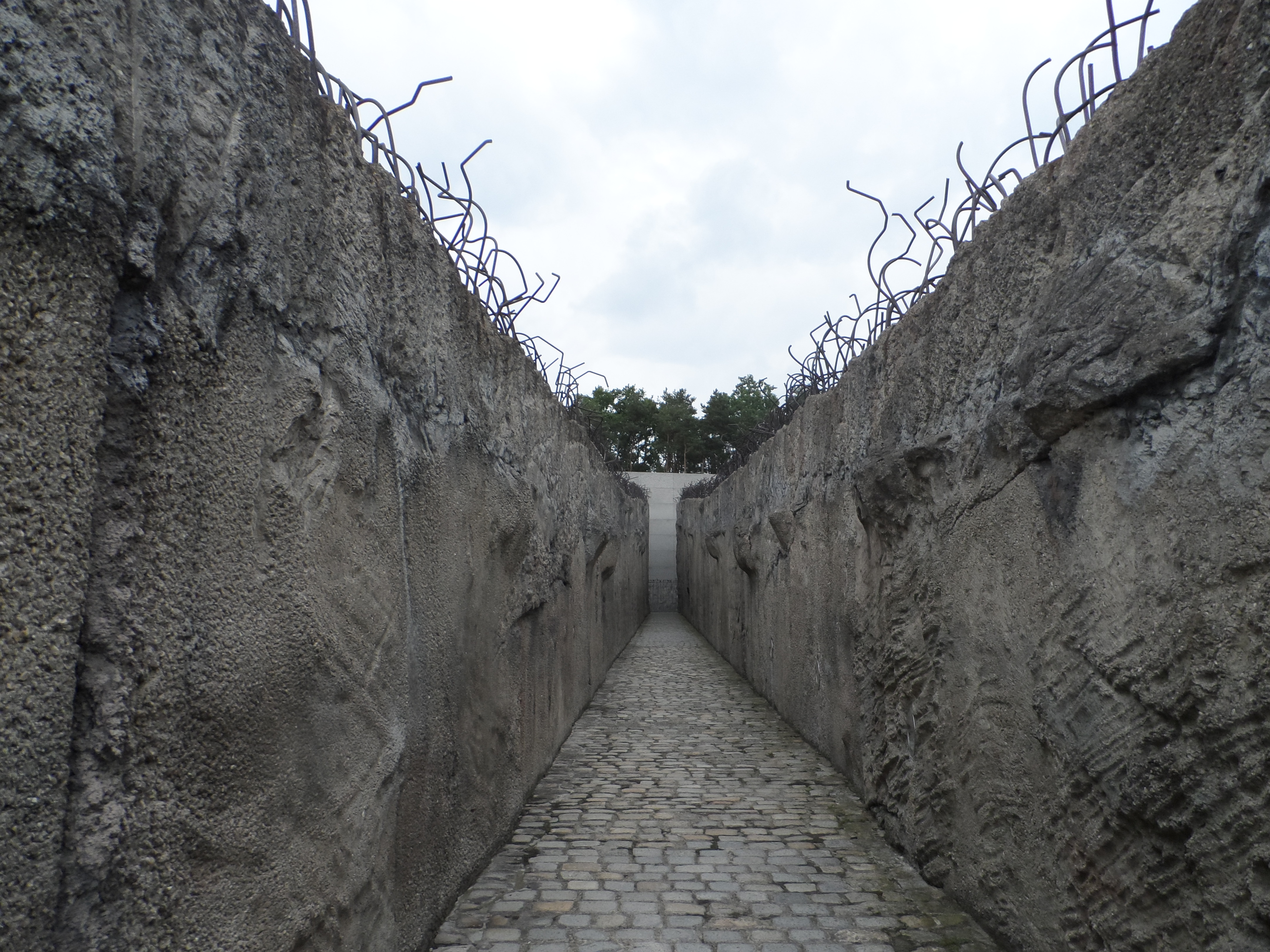 Museum and Memorial in Bełżec, commemorating victims of the Nazi-German extermination camp. The "Crevasse – Road" in the central part of memorial.